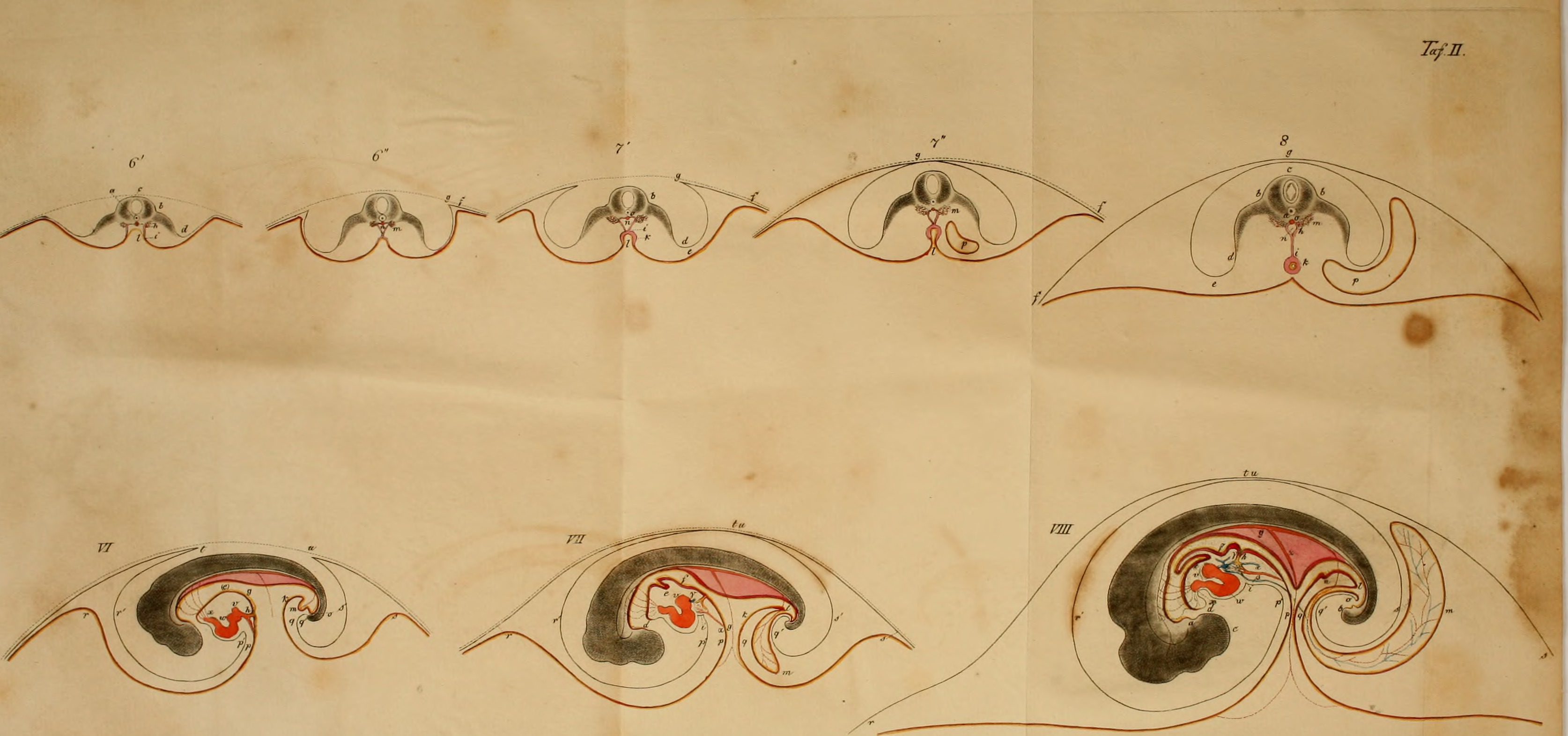 Title: Über Entwickelungsgeschichte der Thiere. Beobachtung und Reflexion .. Year: 1837 (1830s) Authors: Baer, Karl Ernst von, 1792-1876 Subjects: Embryology; Evoluton Publisher: Königsberg, Bei den Gebrüdern Bornträger Text Appearing Before Image: ' Text Appearing After Image: '